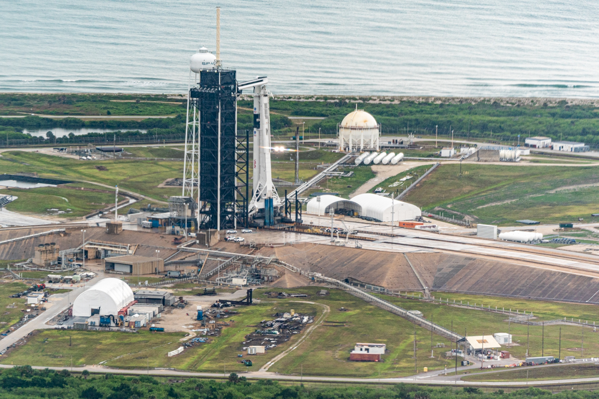 An aerial view of the launch pad for the SpaceX Crew Dragon spacecraft at the Kennedy Space Center is seen Wednesday, May 27, 2020, taken from Air Force One on its arrival to the NASA Shuttle Landing Facility in Orlando, Fla. (Official White House Photo by Shealah Craighead)